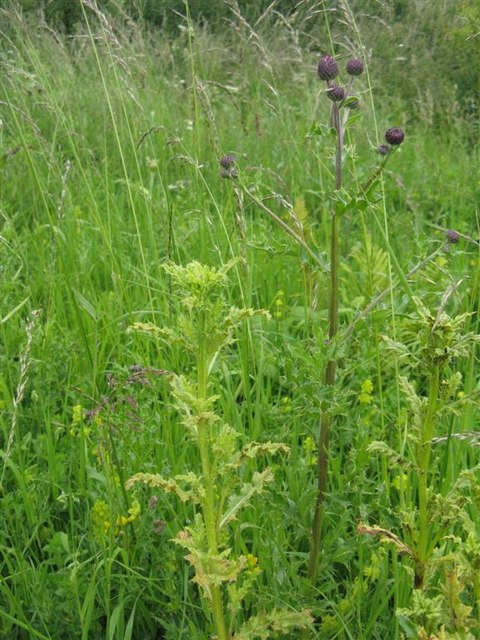 Creeping thistles [Cirsium arvense] The right hand one is healthy. The left hand one is infected by a rust fungus [Puccinia punctiformis]. The thistle is perennial, and so is the fungus. The fungus stunts the thistle, and makes it look yellow and sickly. The underside of the infected leaves are brown, with pustules of spores, and infected plants smell like honey. The smell attracts insects that feed on and disperse the spores.